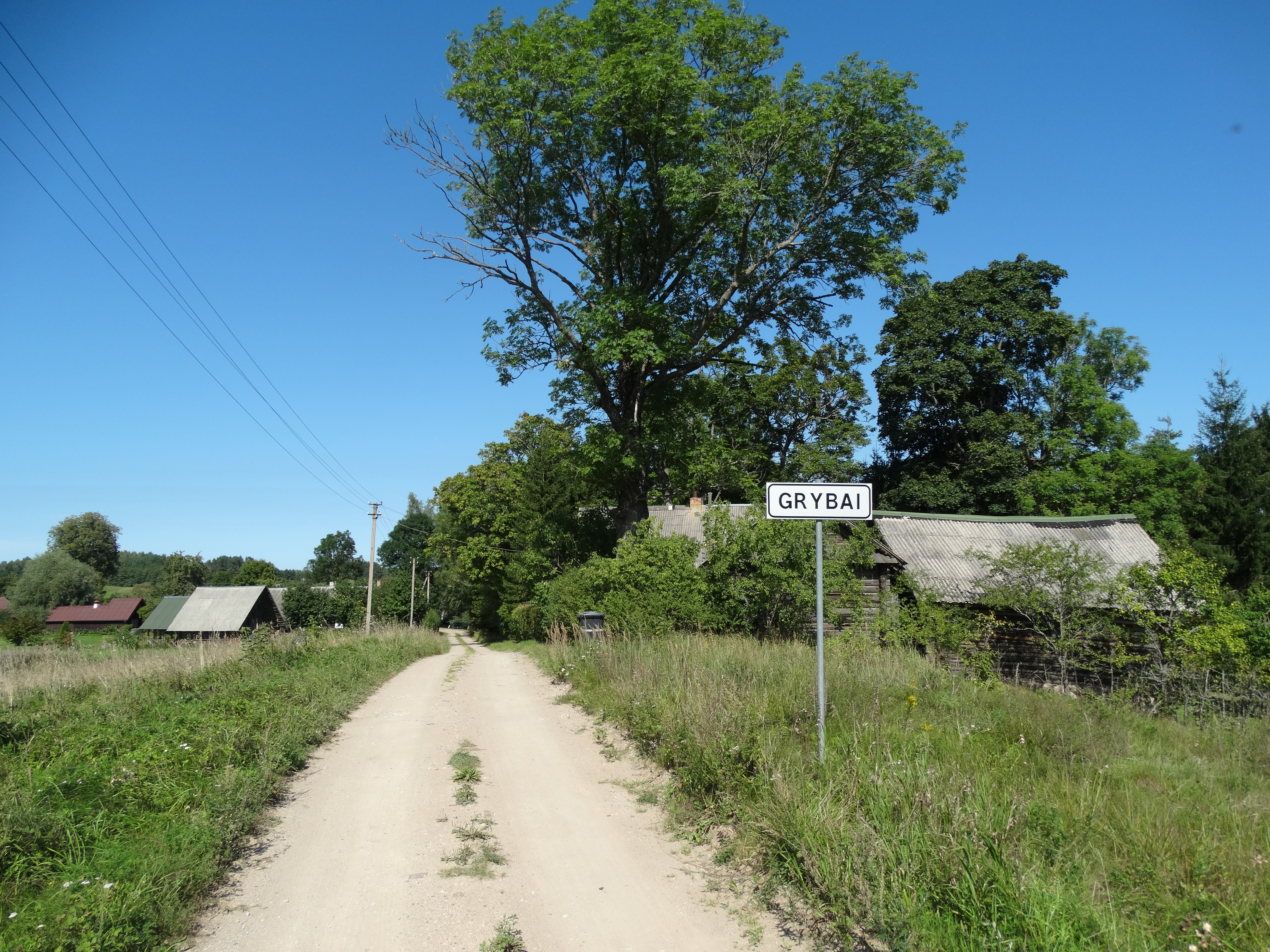 Grybai, Švenčionys District, Lithuania